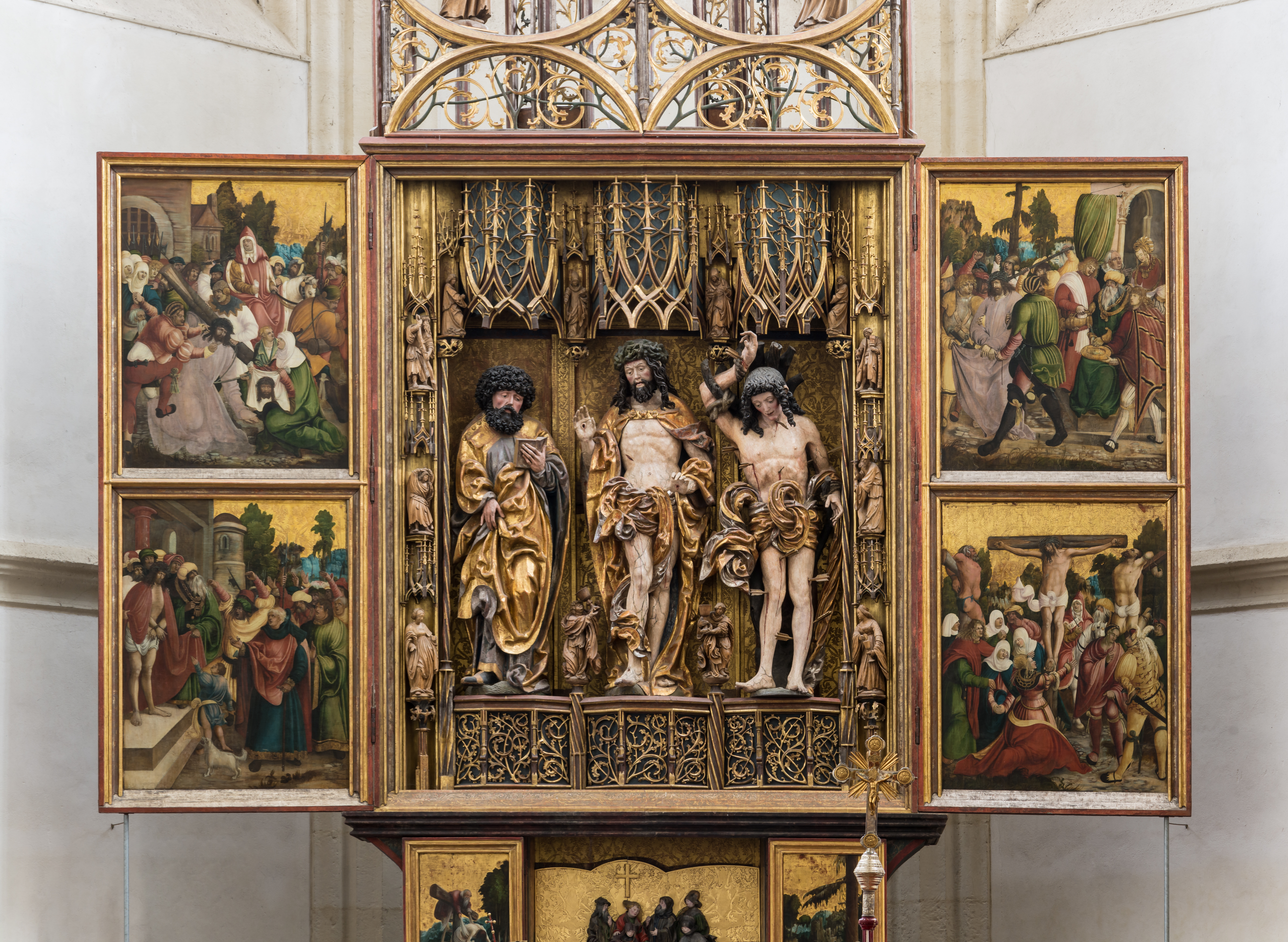 Winged altar at the Church of the Holy Blood in Pulkau, Lower Austria. Anonymous master (called Master of the Pulkau Altarpiece), around 1515.